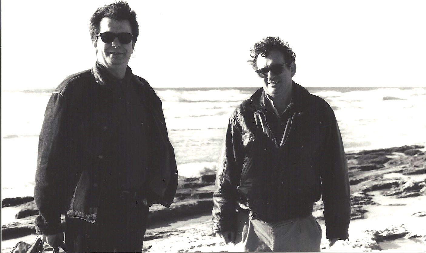 Benny Brunner (left) and Benny Morris (right) during production of Al Nakba.